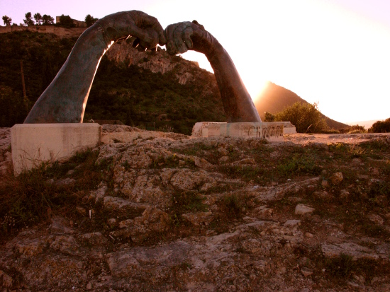 Boix's L'Arc Daurat placed on the Bellveret observation deck in Xàtiva